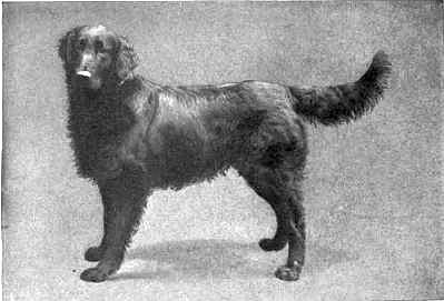 Flat-coated Retriever. (From Photo by Bowden Bros.)